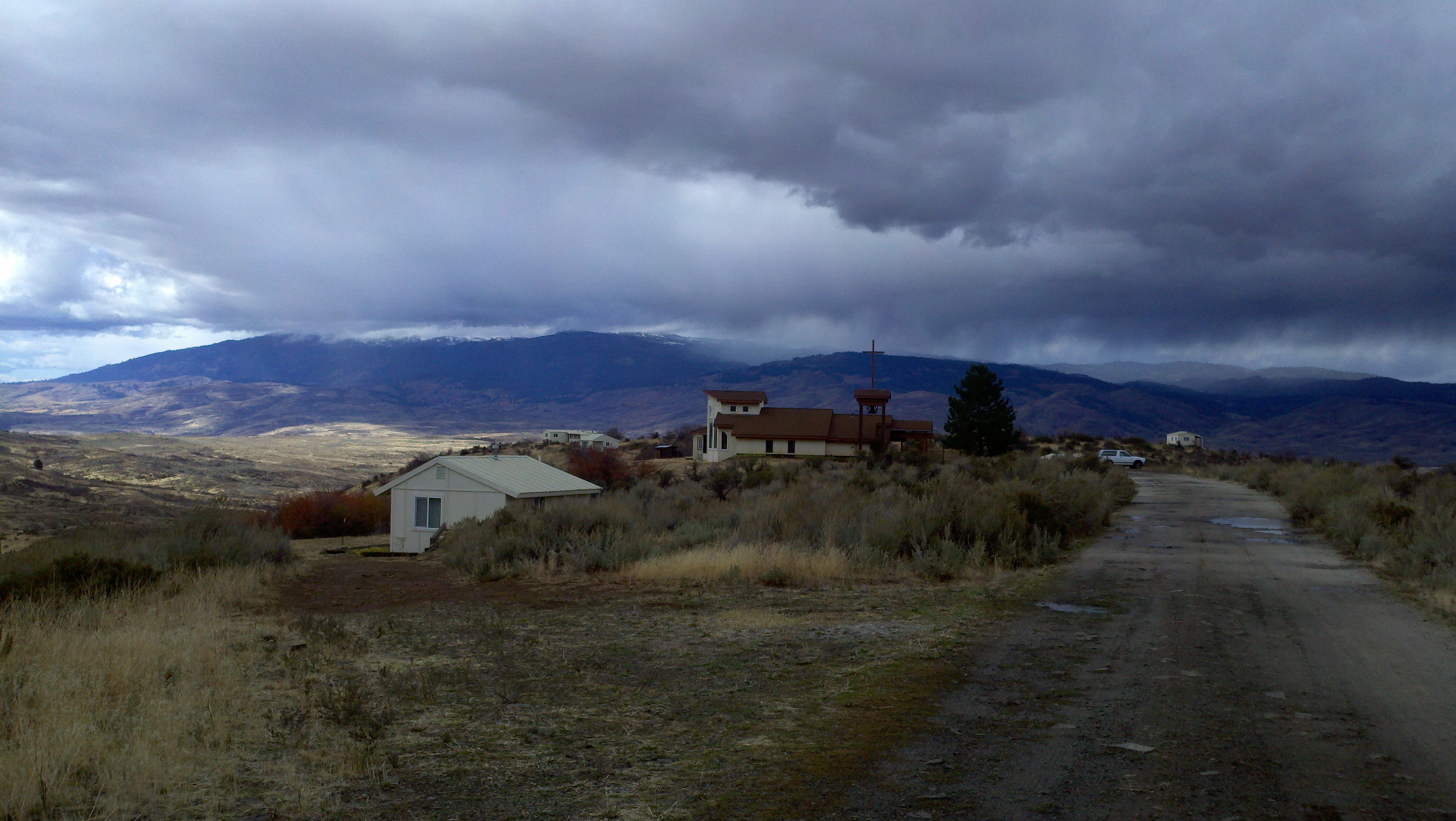 This is the view of Marymount Chapel and a few hermitages as you enter the holy grounds